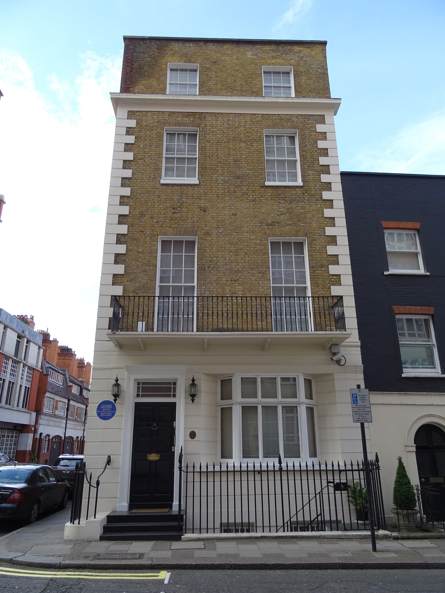 Catherine Walters (Skittles) the last Victorian courtesan lived here from 1872 until 1920 - 15 South Street, Mayfair, London W1K 2XB